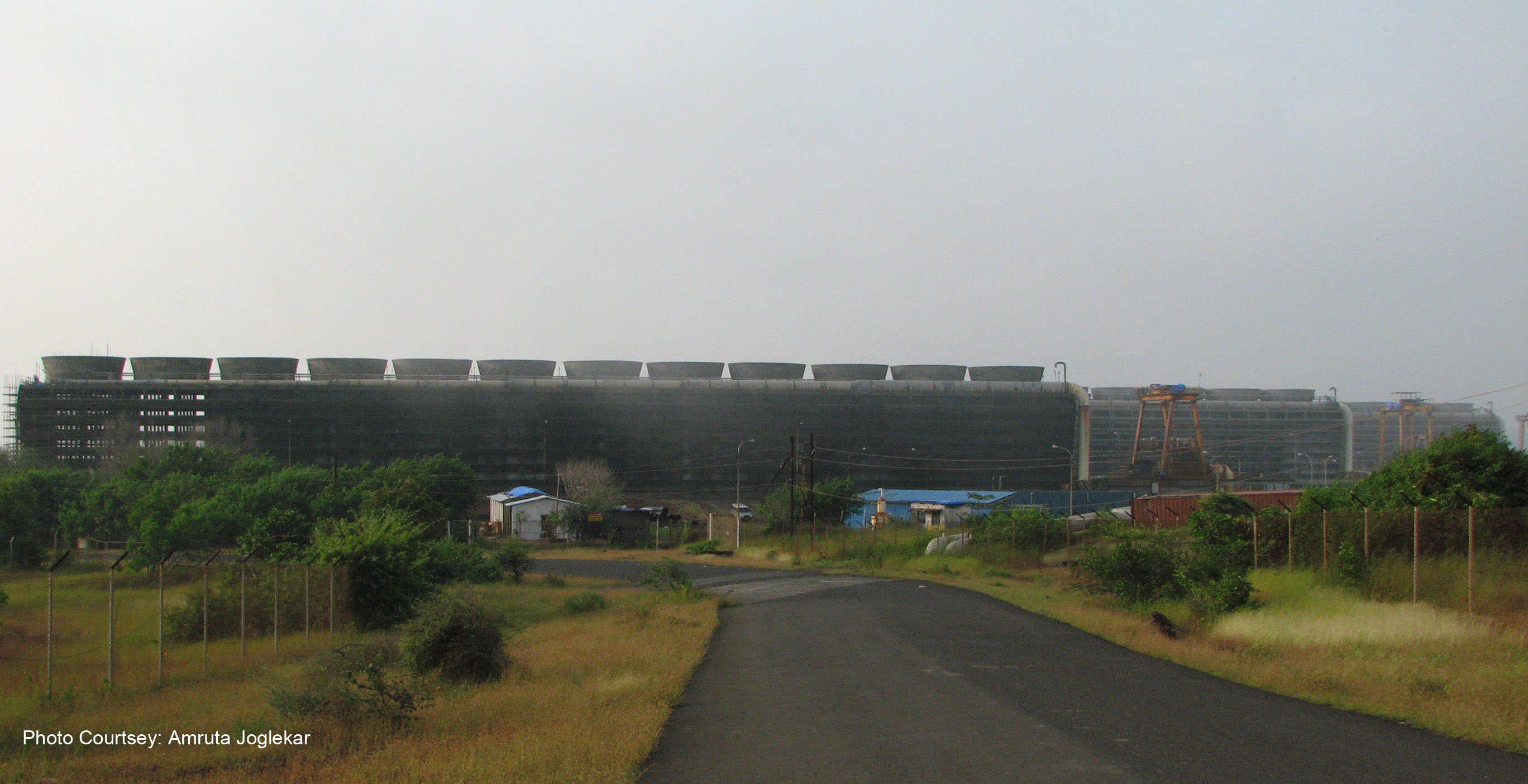 At this place,Naptha based Enron company was present.Agitation against pollution creating Enron company is well known.Now RGPPL replaced Enron.RGPPL is a Gas based company.It is claimed that this is totally pollution free power generation. However, the cooling towers of RGPPL apparently suffer from engineering defects and some pollutant percolates into streams and wells of neighbouring Katalwadi village.